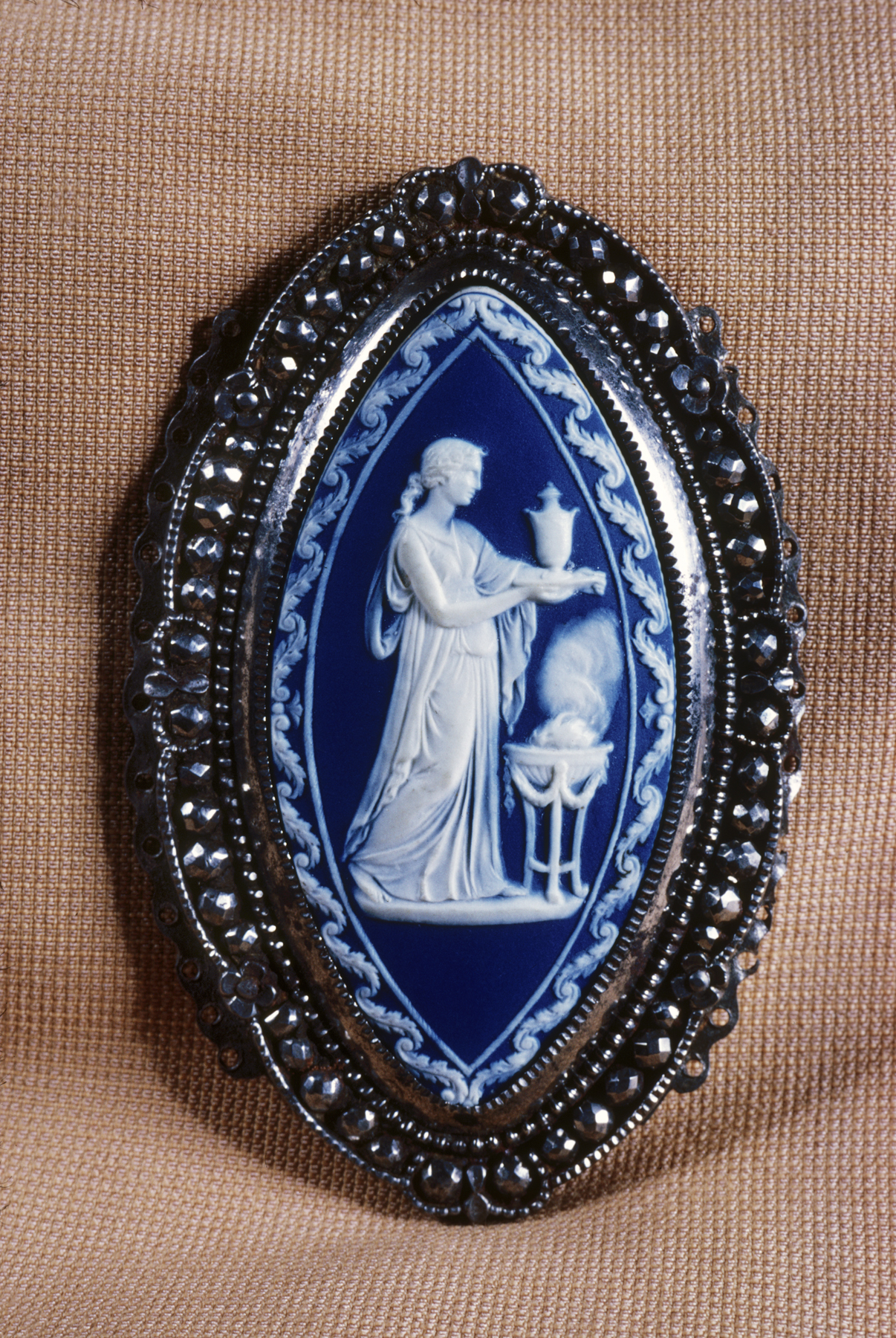 The jasperware medallions showing sacrificing priestesses were designed by Lady Templeton and Miss Crew for Josiah Wedgwood's factory, Etruria. They have been mounted in metal frames with faceted steel studs, a specialty of Matthew Boulton's factory in Birmingham.